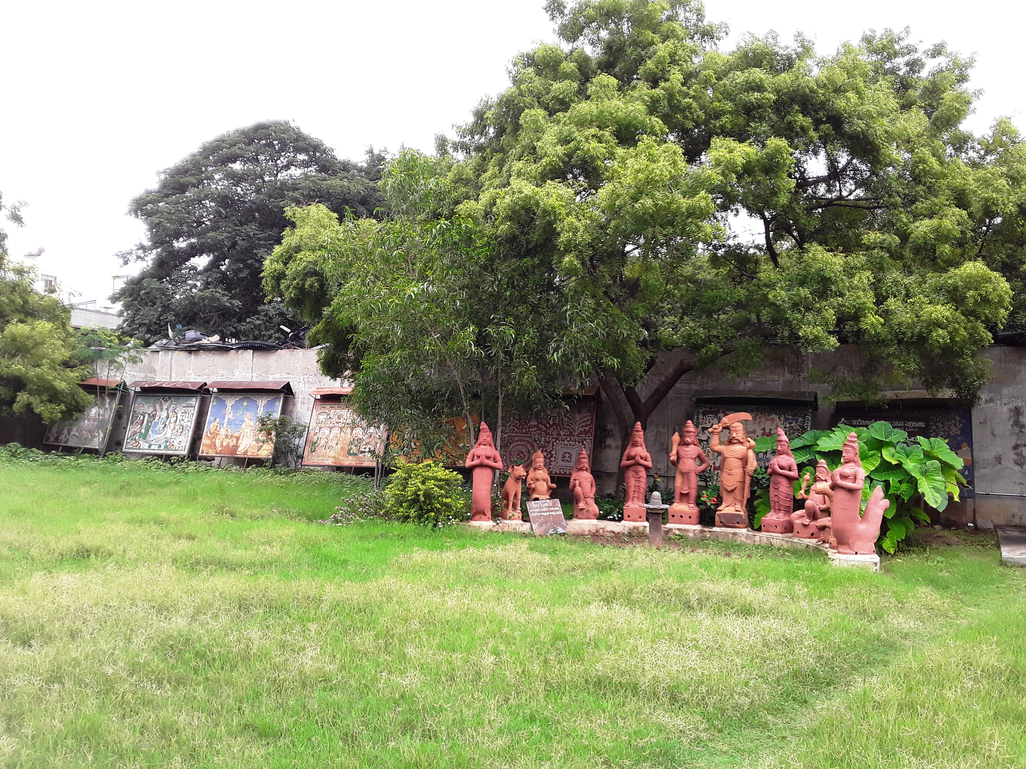 Karnataka province, India.